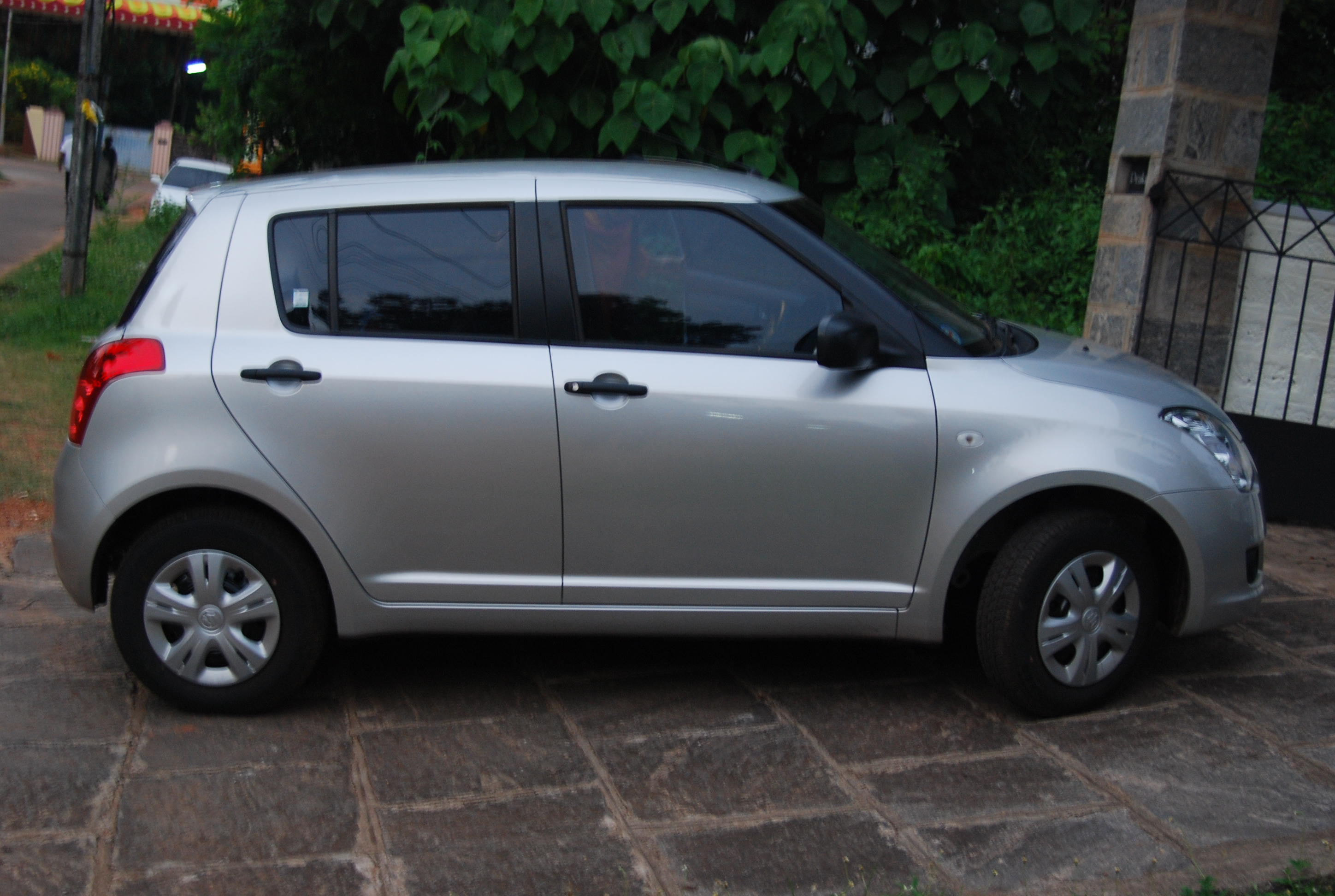 A Maruti Suzuki Swift 2008 model.